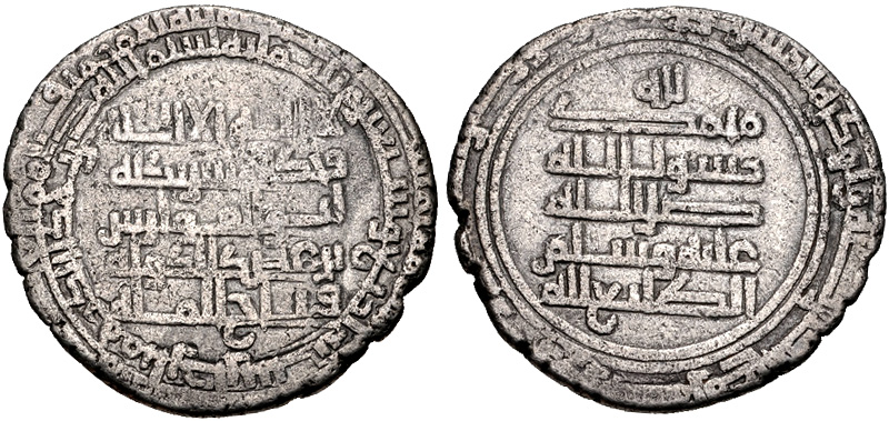 Coin of the Buyid ruler Sharaf al-Dawla.